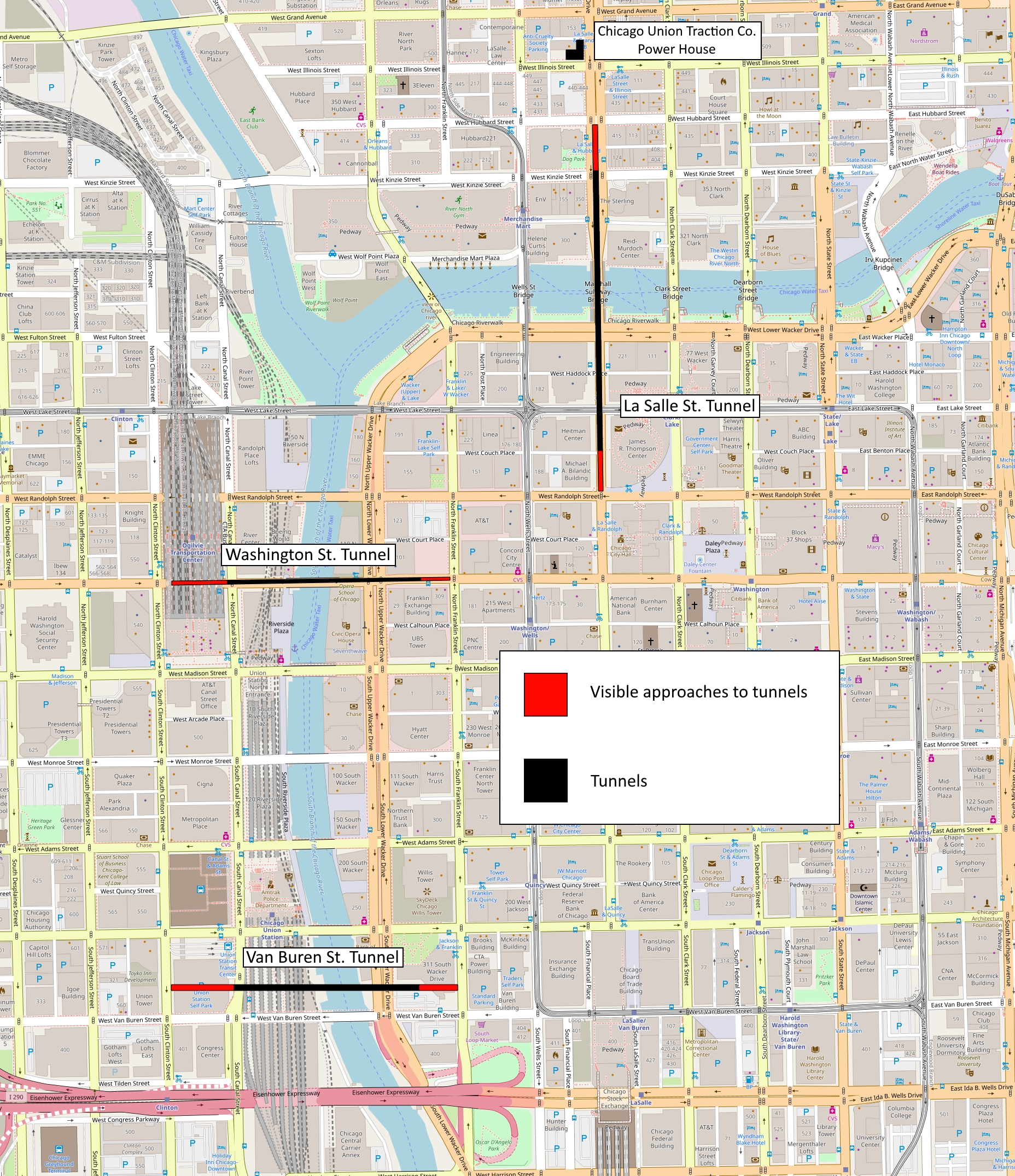 Map of the 3 cable car tunnels in Chicago c. 1906, created using Sanborn Fire Insurance Maps from the 1906.